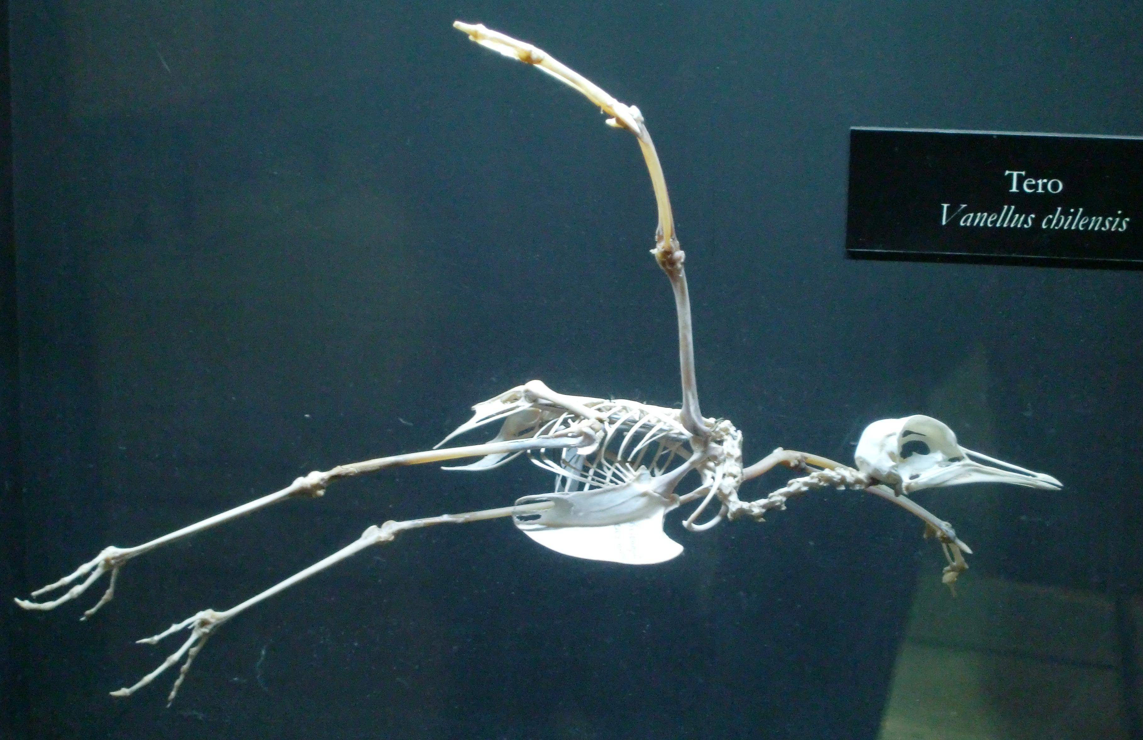 Vanellus chilensis Southern Lapwing. Photo taken by kind permission of Bernardino Rivadavia Natural Sciences Museum